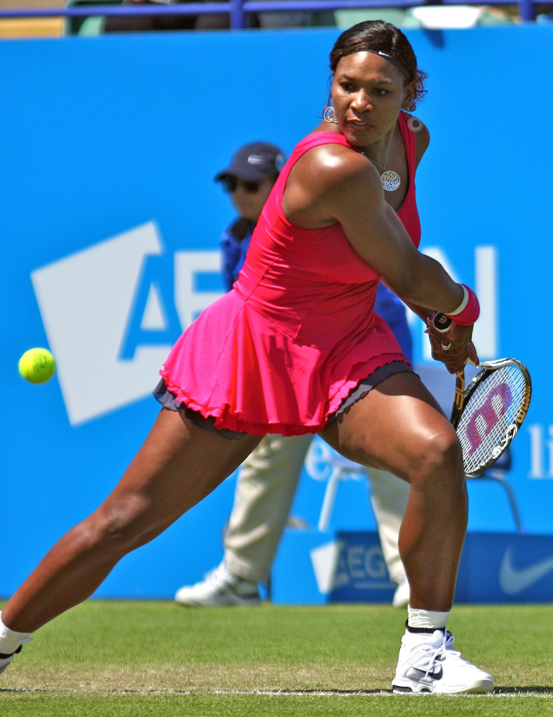 Serena Williams at the 2011 AEGON International in Eastbourne.